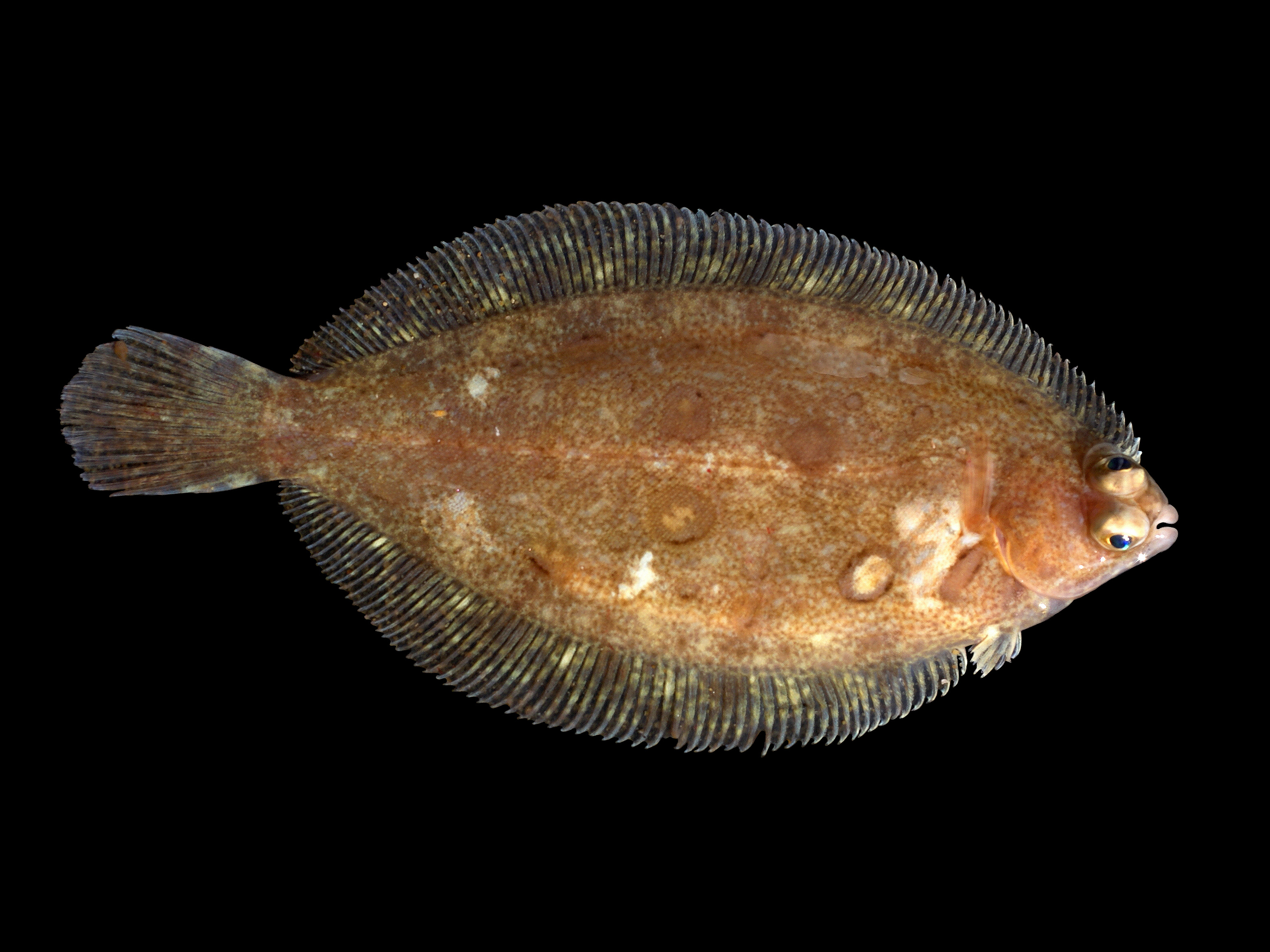 Lemon sole from the Fairy Bank in the Southern North Sea.